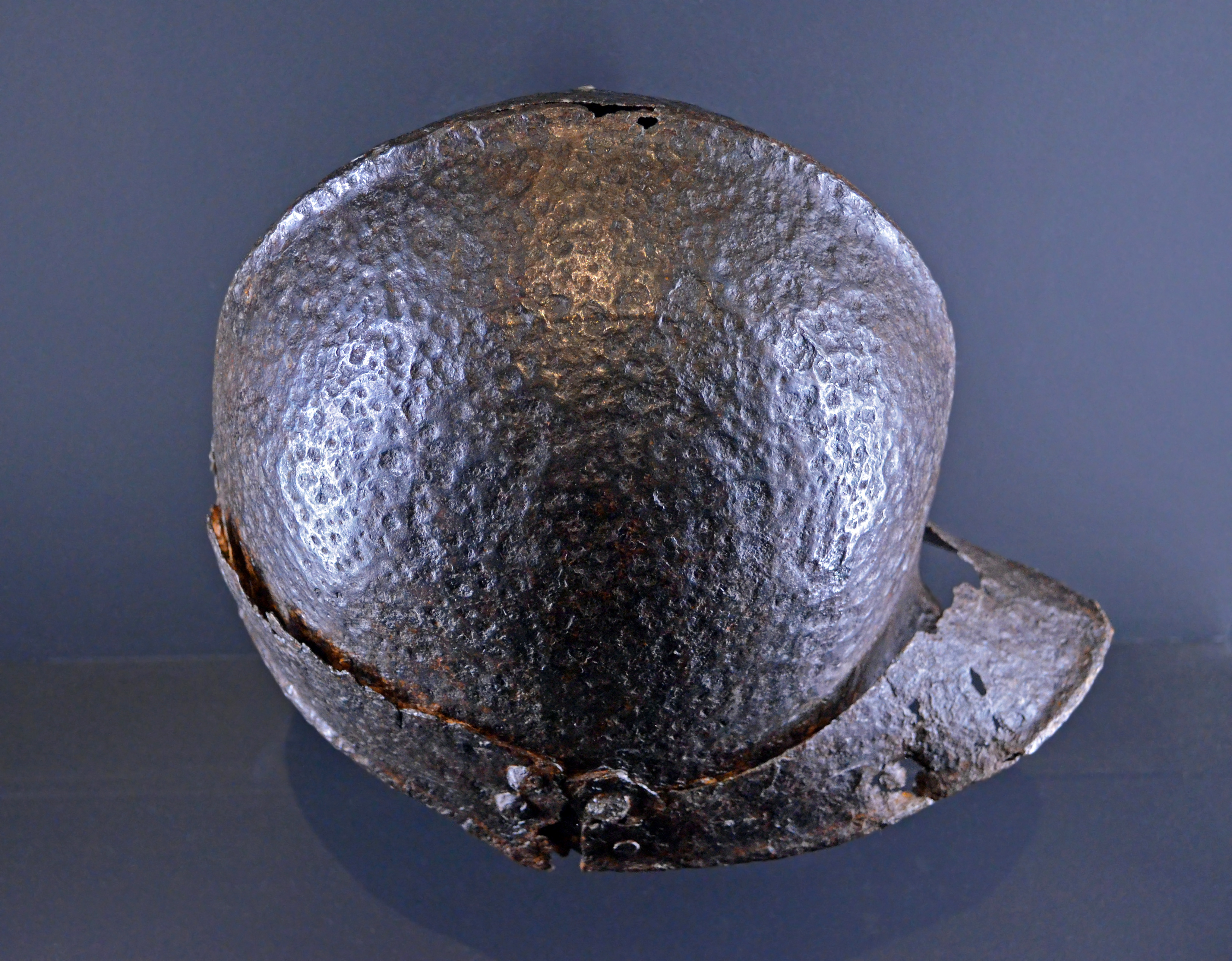 Sallet, ca. 1430-1450. Exhibited in History Museum of Vendée (Les Lucs-sur-Boulogne, Vendée)